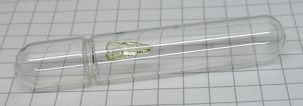 100 mg of osmium tetroxide in a glass ampoule.